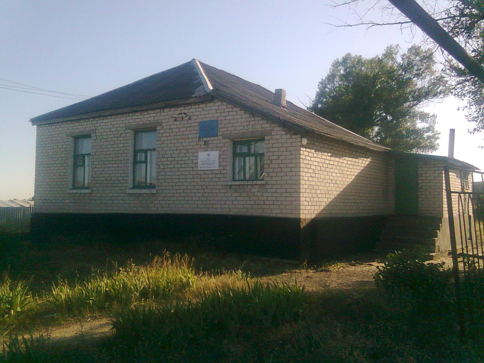 makarovo-shcool